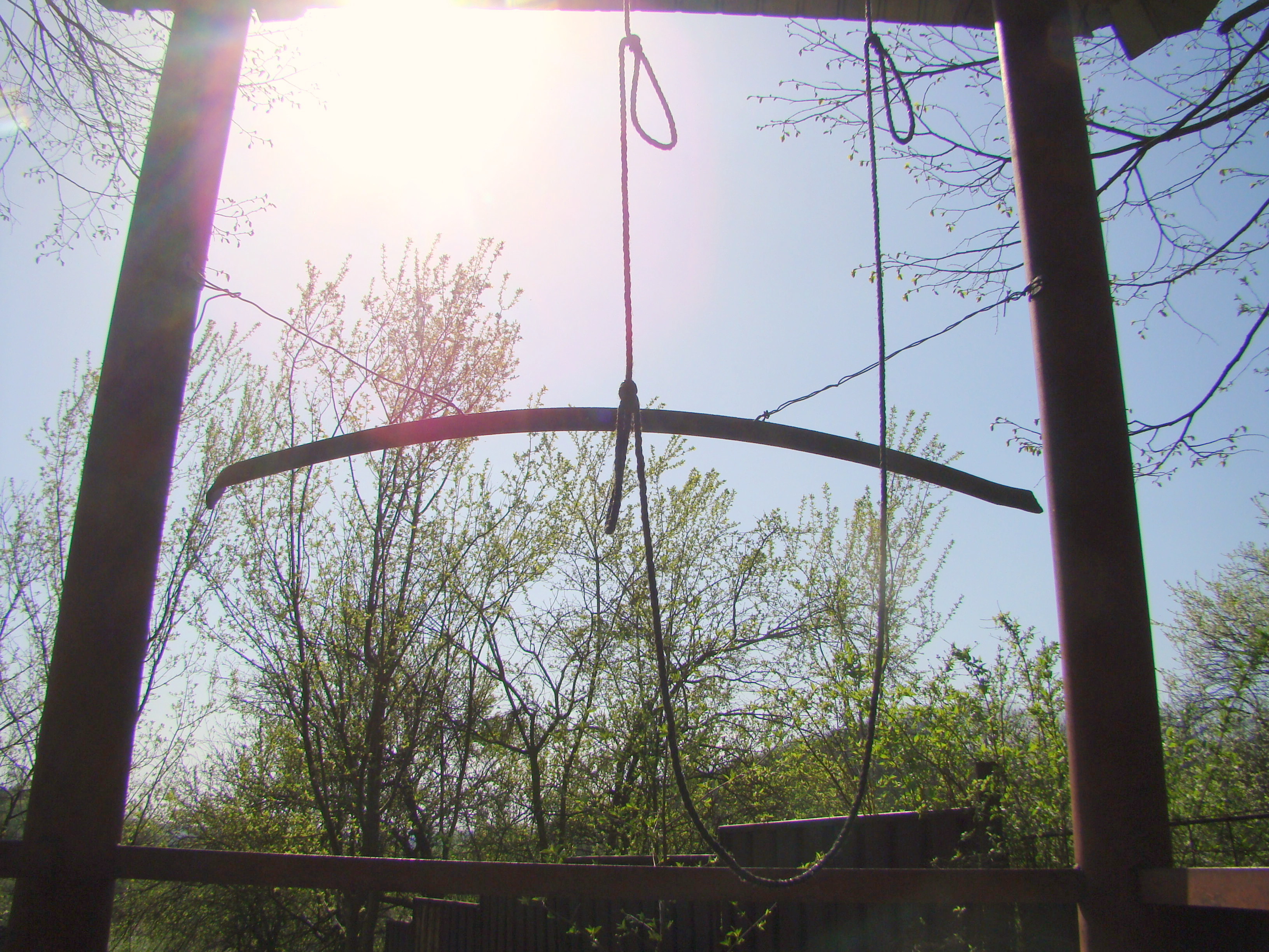 Wooden church in Duțești, Gorj county, Romania